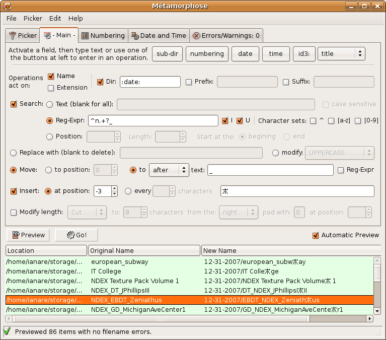 Screenshot of Métamorphose version 1.1.1 on Ubuntu 7.04